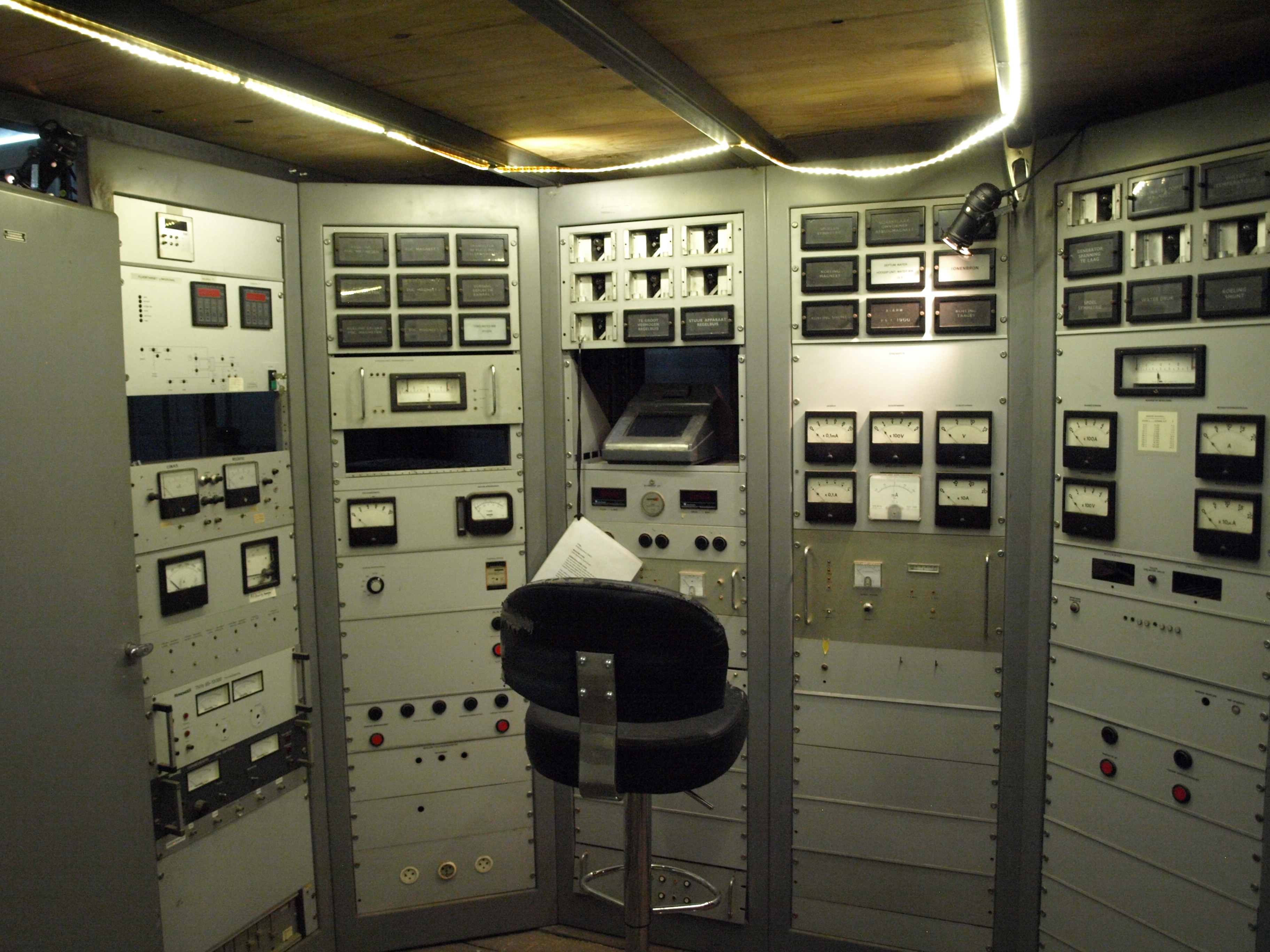 part of "Knopjesmuseum" on board Serendiep – Dutch ship, ENI 02310271.